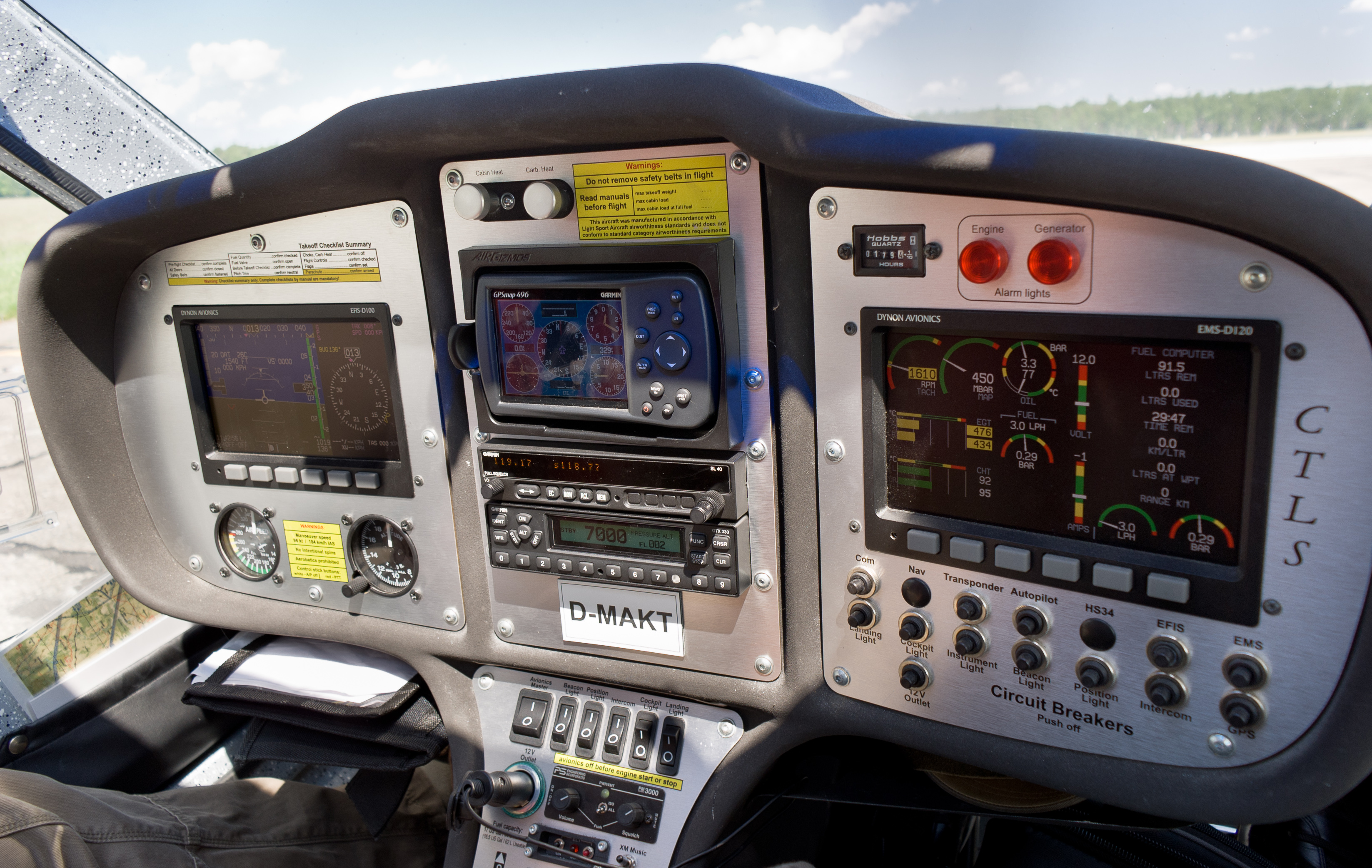 The cockpit of the CTLS plane made by Flight Design at Warsaw-Babice airport.